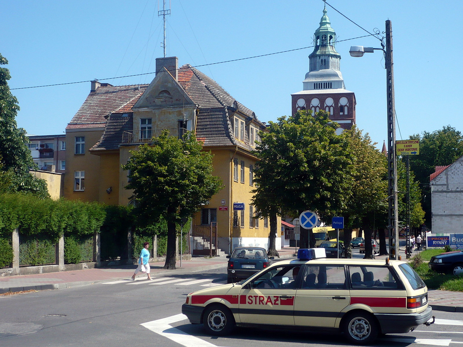 Police department and fire-brigade car in Gryfice, Poland